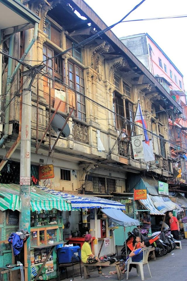 Boix House. Taken by Giovanni Roan